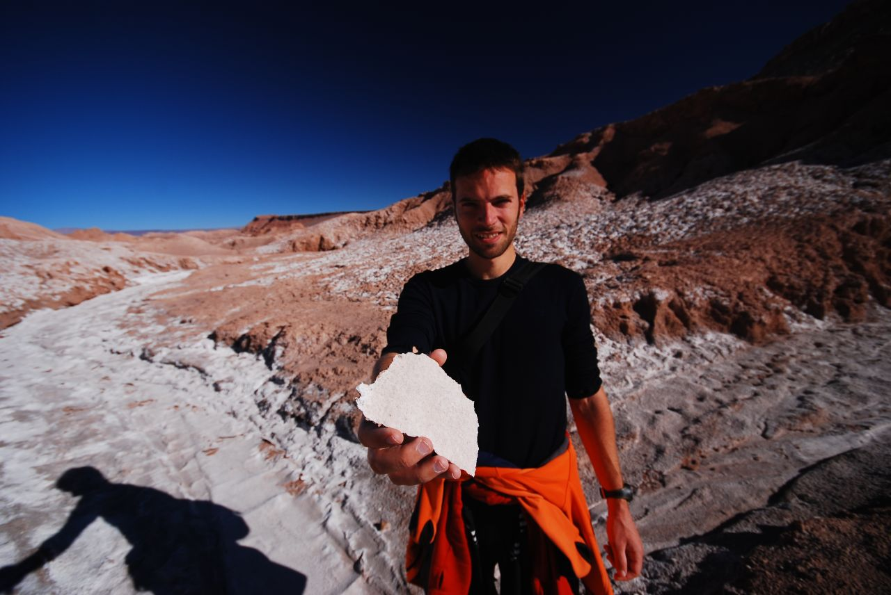 A man holds a block of halite from the Atacama Desert